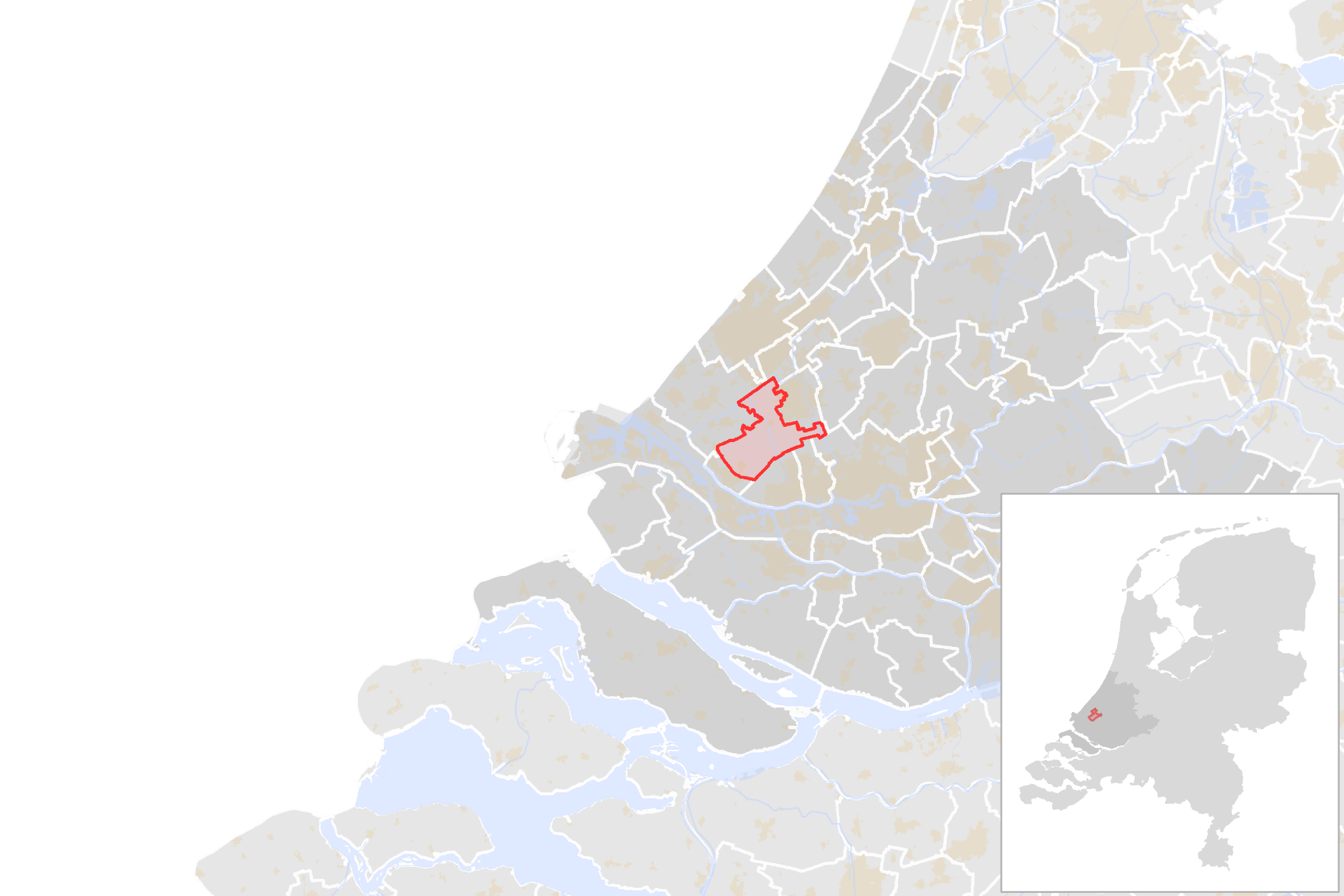 Locator map showing municipality boundary of one of the 390 Dutch municipalities (as of 2016)